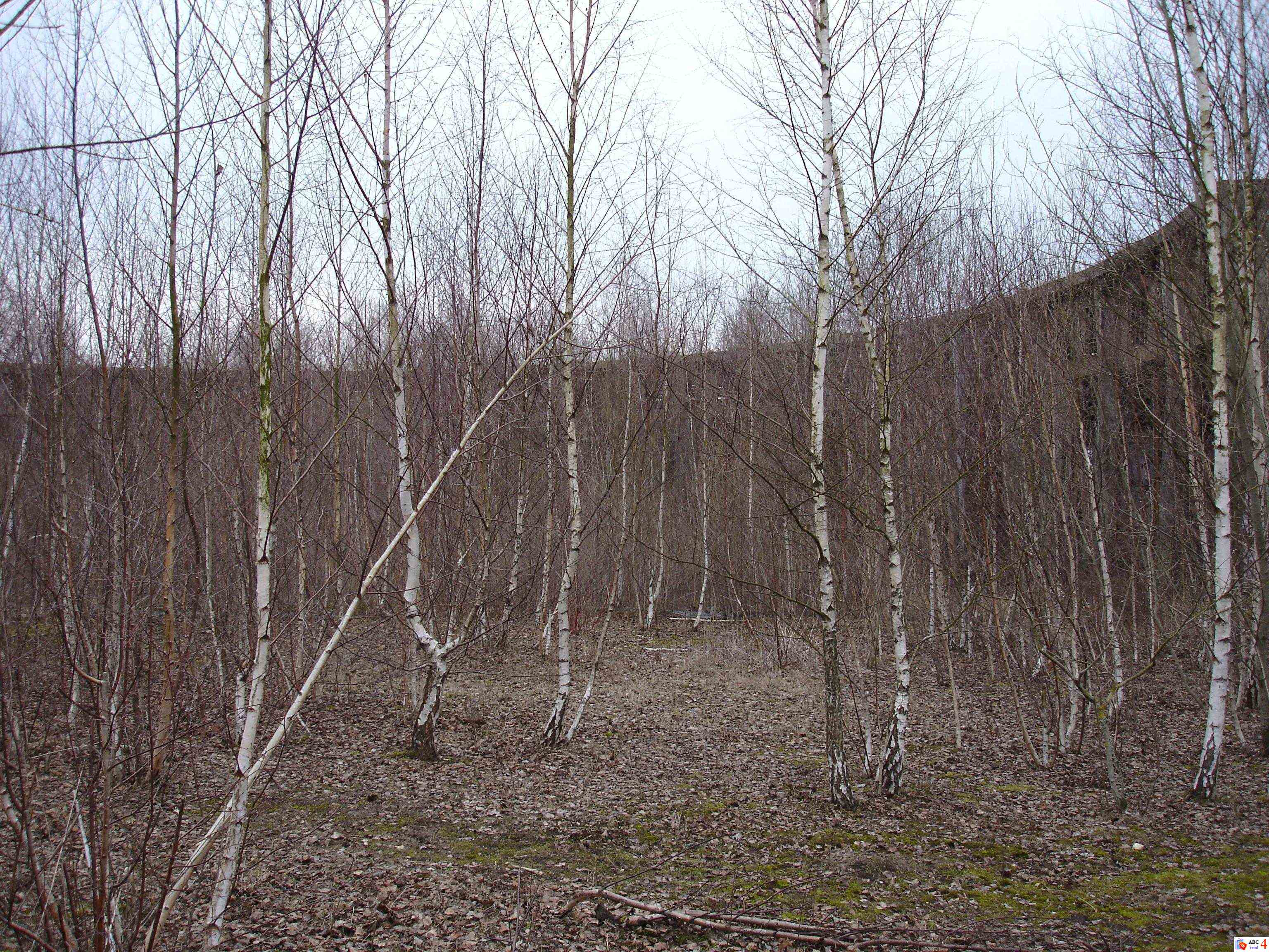 former area of the Bw Rheine turntable near the shunting yard with engine shed